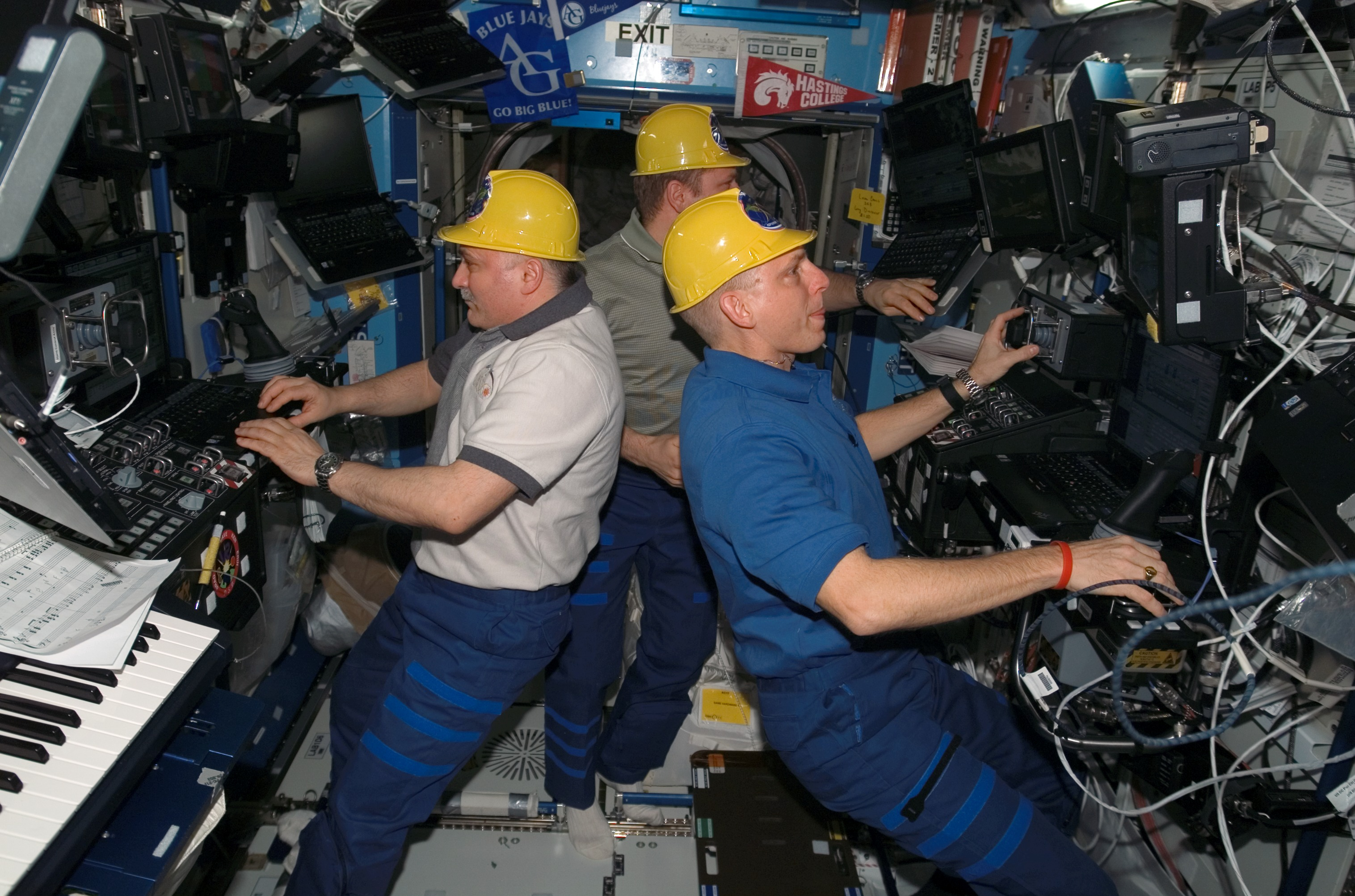 Cosmonauts Fyodor Yurchikhin (left) and Oleg Kotov, Expedition 15 commander and flight engineer, respectively, along with astronaut Clay Anderson (right), flight engineer, work various tasks in the Destiny laboratory of the International Space Station during Pressurized Mating Adapter-3 transfer operations.